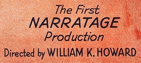 Detail from the theatrical poster of the 1933 film The Power and the Glory. The text reads: "The first Narratage Production Directed by William K. Howard".